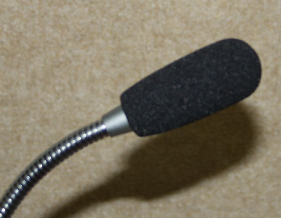 microfoon met plopkap